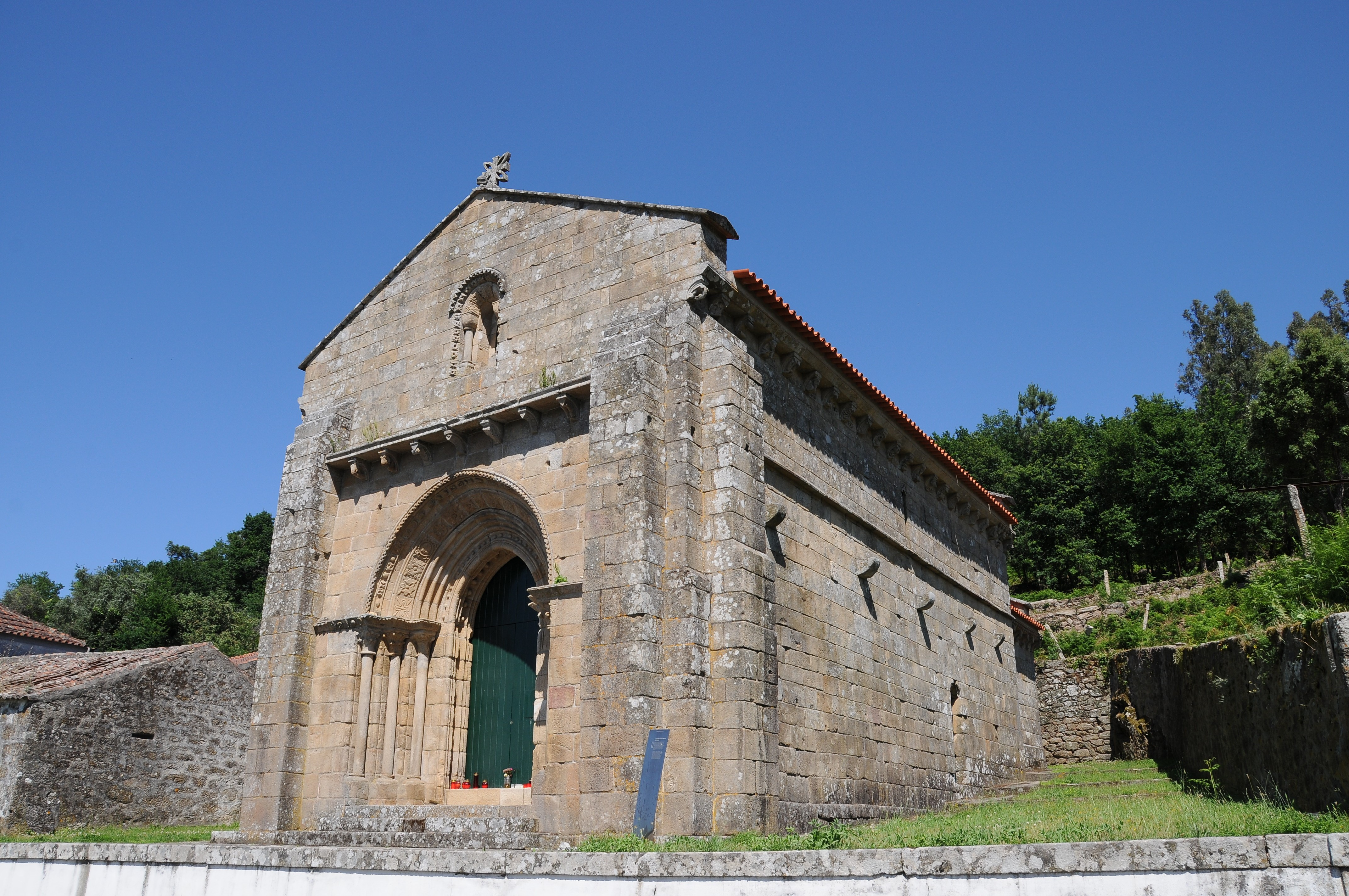 Senhora da Orada Chapel, in Melgaço, Portugal